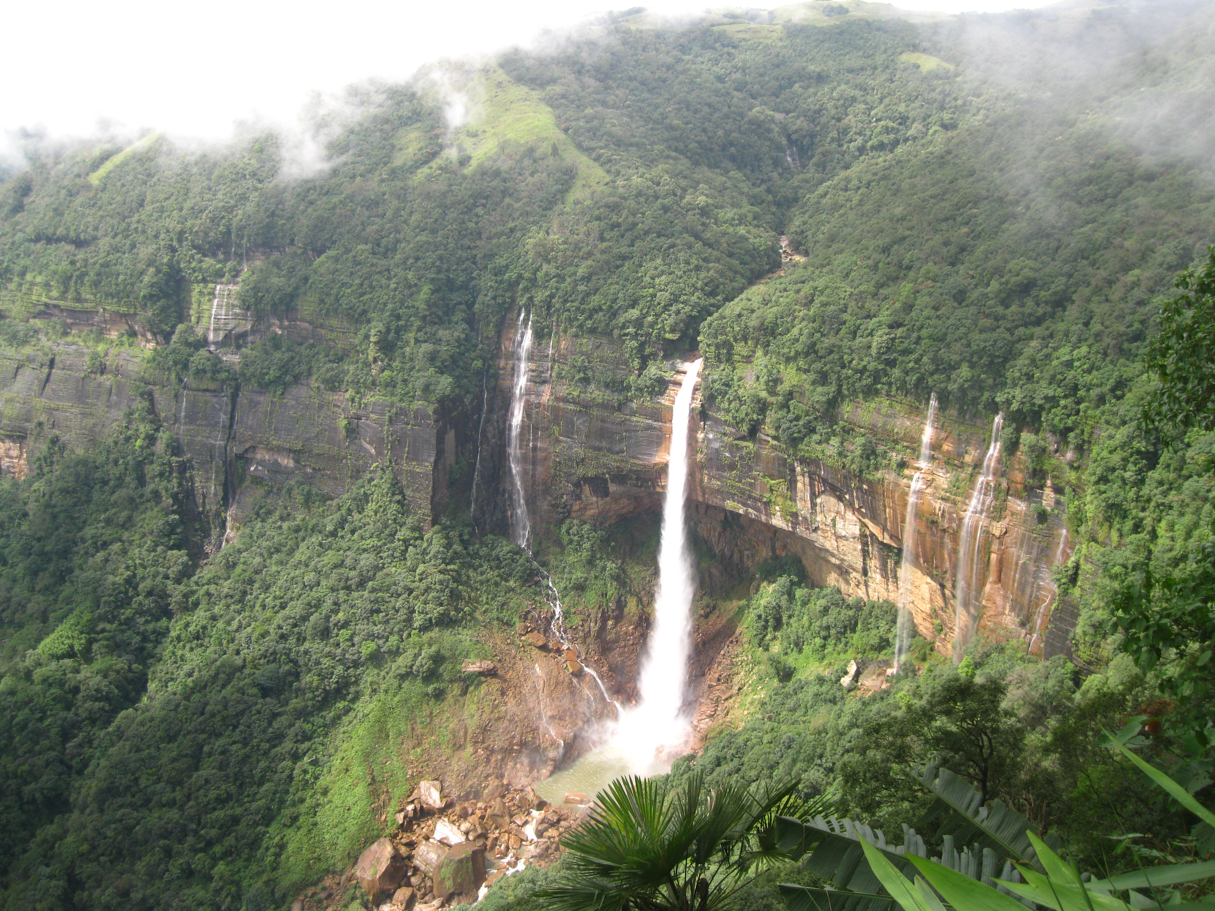 Nohkalikai falls,Cherrapunji,Meghalaya